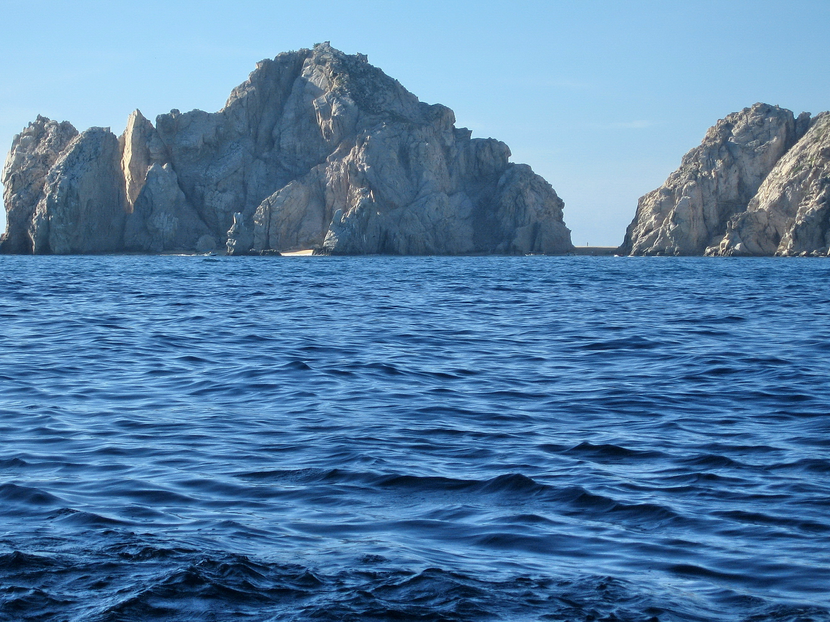 Land's End in Cabo San Lucas, October 2006 JA 18:16, 21 October 2007 (UTC)